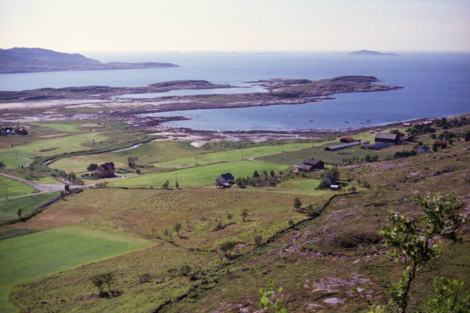 Harbakk in Åfjord